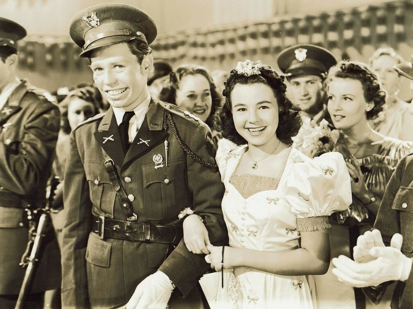 Press photo of Joe Brown Jr. and Jane Withers in the 1940 film "High School"